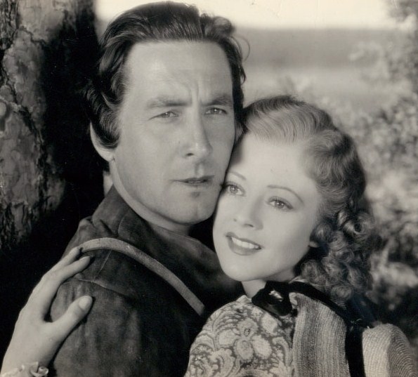 George O'Brien and Heather Angel in Daniel Boone (1936) - publicity still (original image cropped : see source)